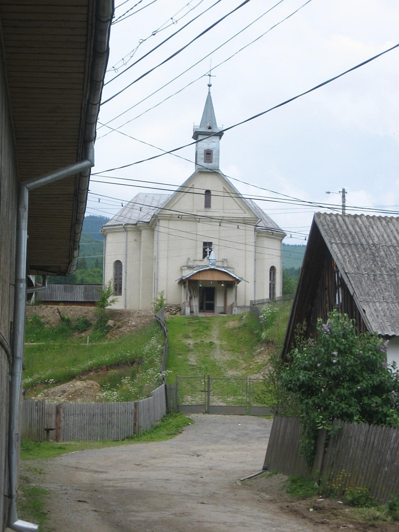 picture of the kath. church in kirlibaba